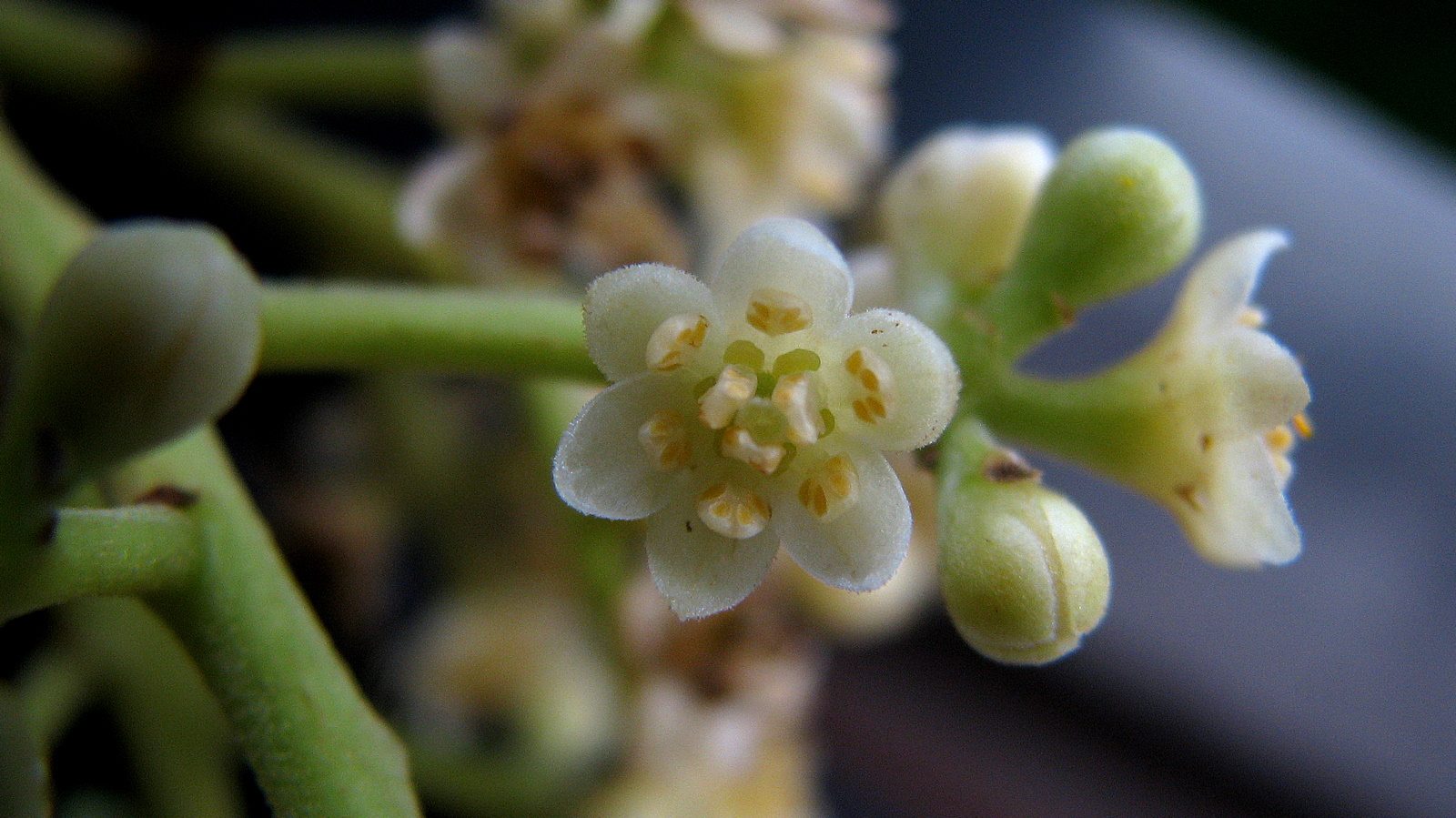 Ocotea lancifolia (Schott) Mez